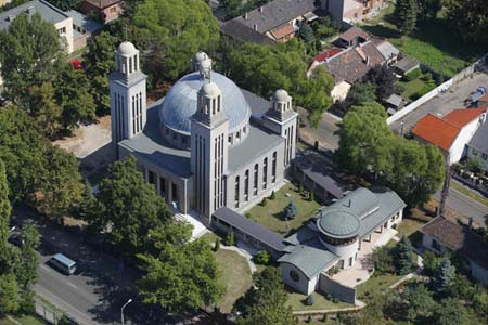 This picture is © copyright Civertan Grafikai Stúdió (Civertan Bt.), 1997-2006.; has been verified that Commons user Civertan is controlled by Civertan Grafikai Stúdió and that it is allowed to relicense content copyrighted to this organization. This work is free and may be used by anyone for any purpose. If you wish to use this content, you do not need to request permission as long as you follow any licensing requirements mentioned on this page.